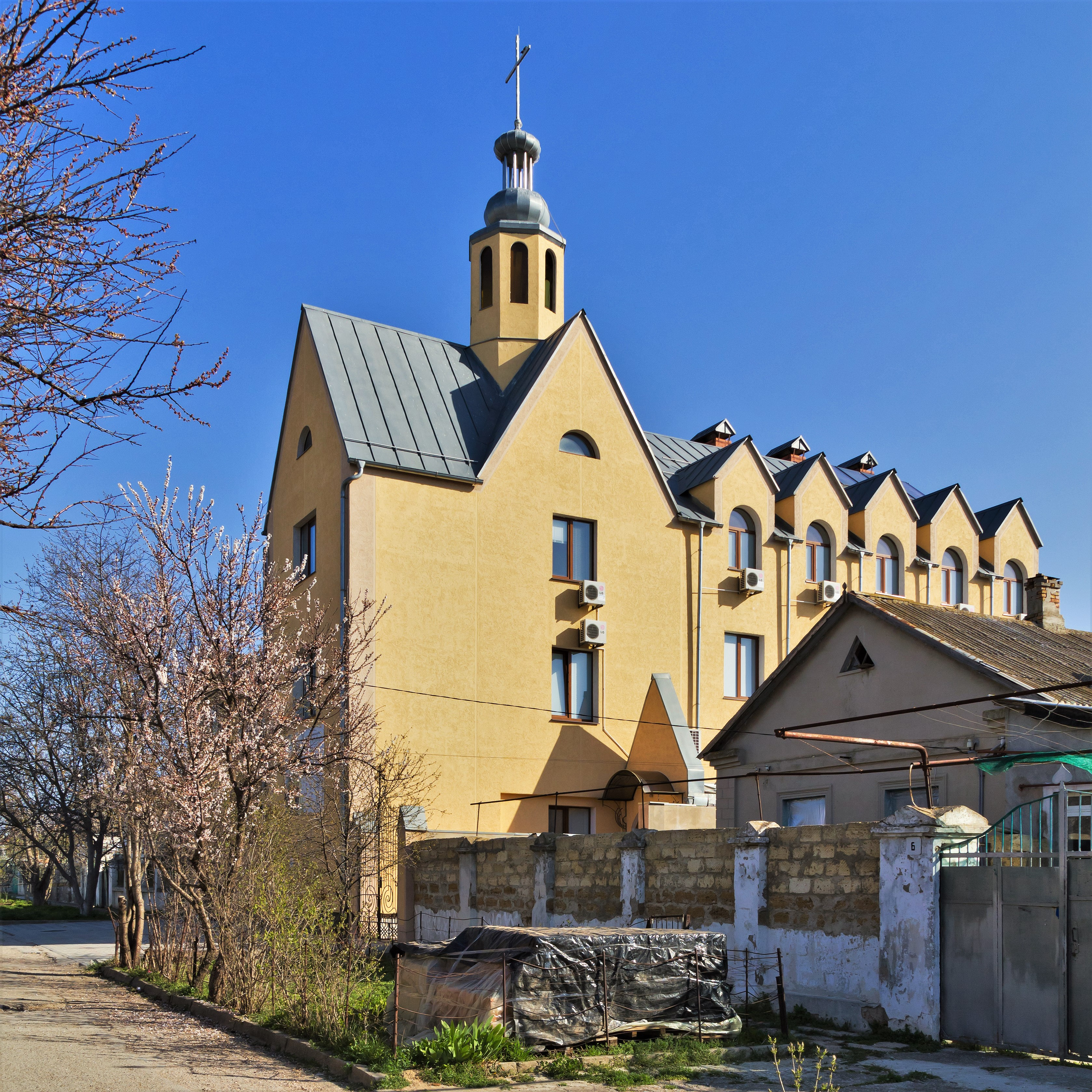 The Roman Catholic church of St. Martin in Eupatoria, Crimean Peninsula.